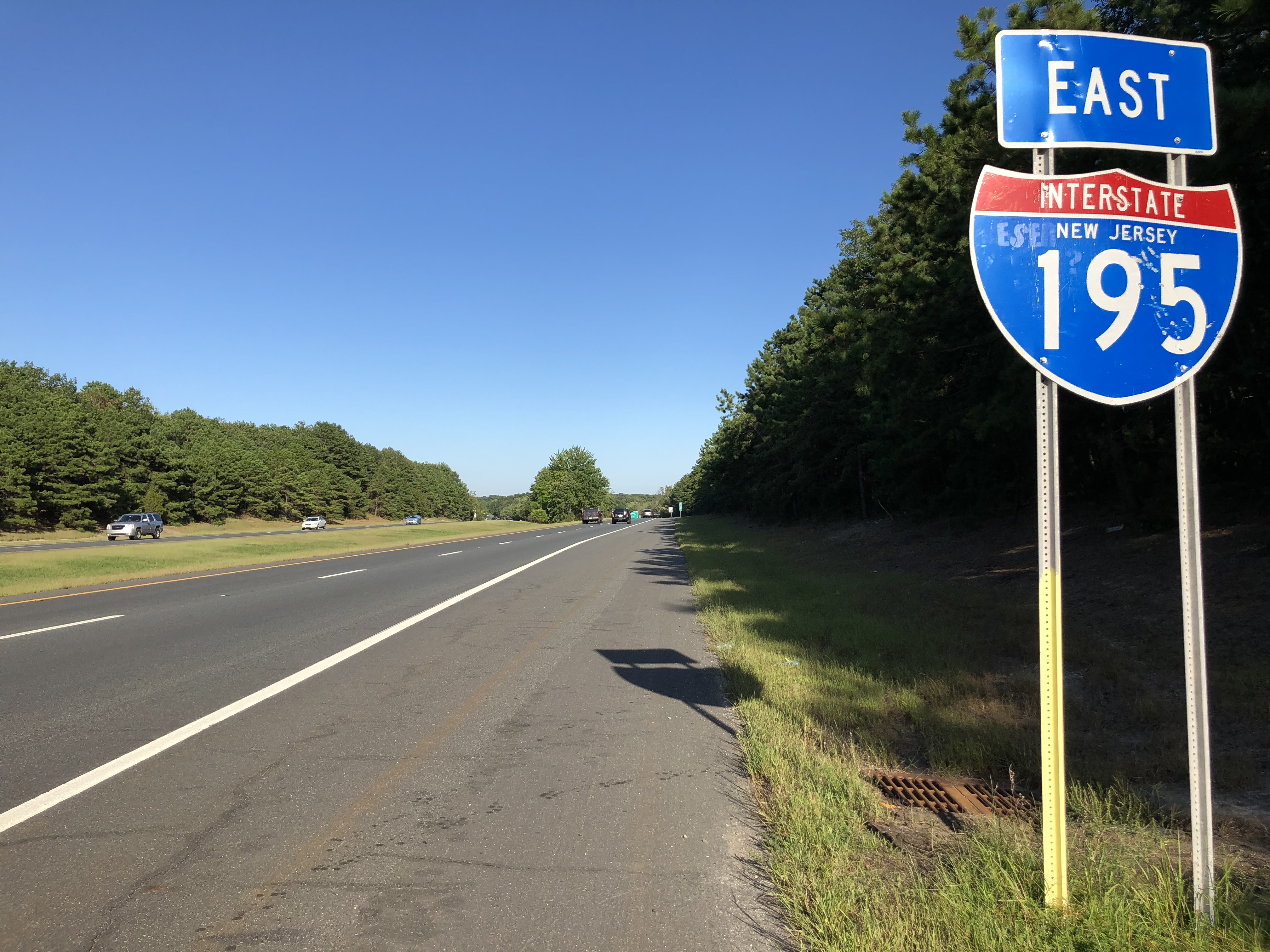 View east along Interstate 195 (Central Jersey Expressway) just east of Exit 21 in Jackson Township, Ocean County, New Jersey